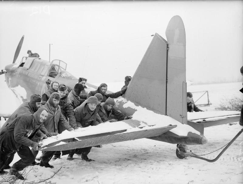 Royal Air Force- France, 1939-1940. Airmen of No. 226 Squadron RAF present cheerful faces for the photographer while pushing one of their Fairey Battles through the snow to its hangar at Reims.